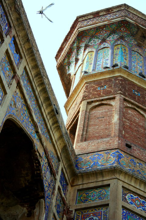 Chauburji This is a photo of a monument in Pakistan identified as the PB-46